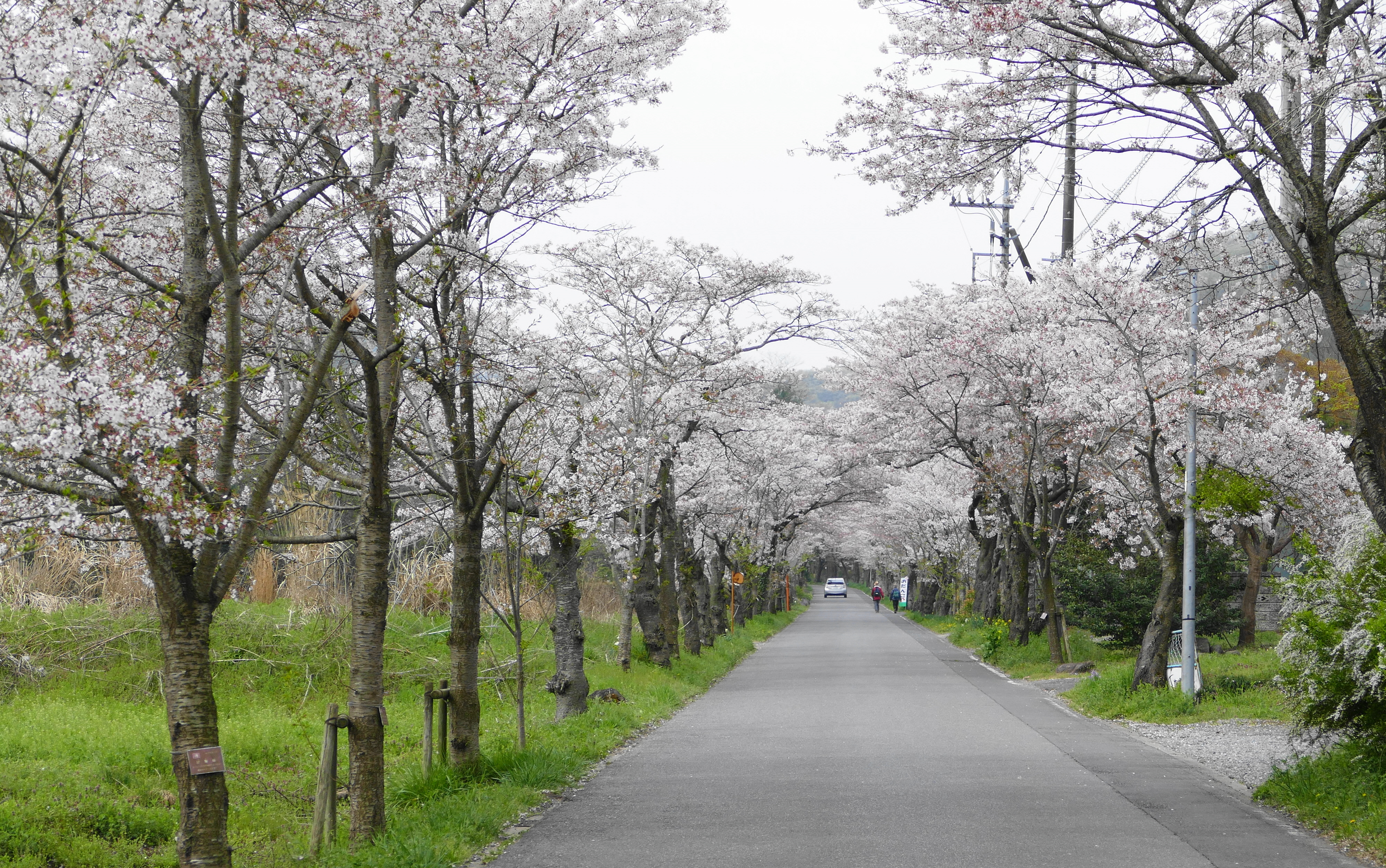 Ohirasan Prefectural Natural Park,(Japan's Top 100 famous place of cherry trees),Tochigi prefecture,Japan